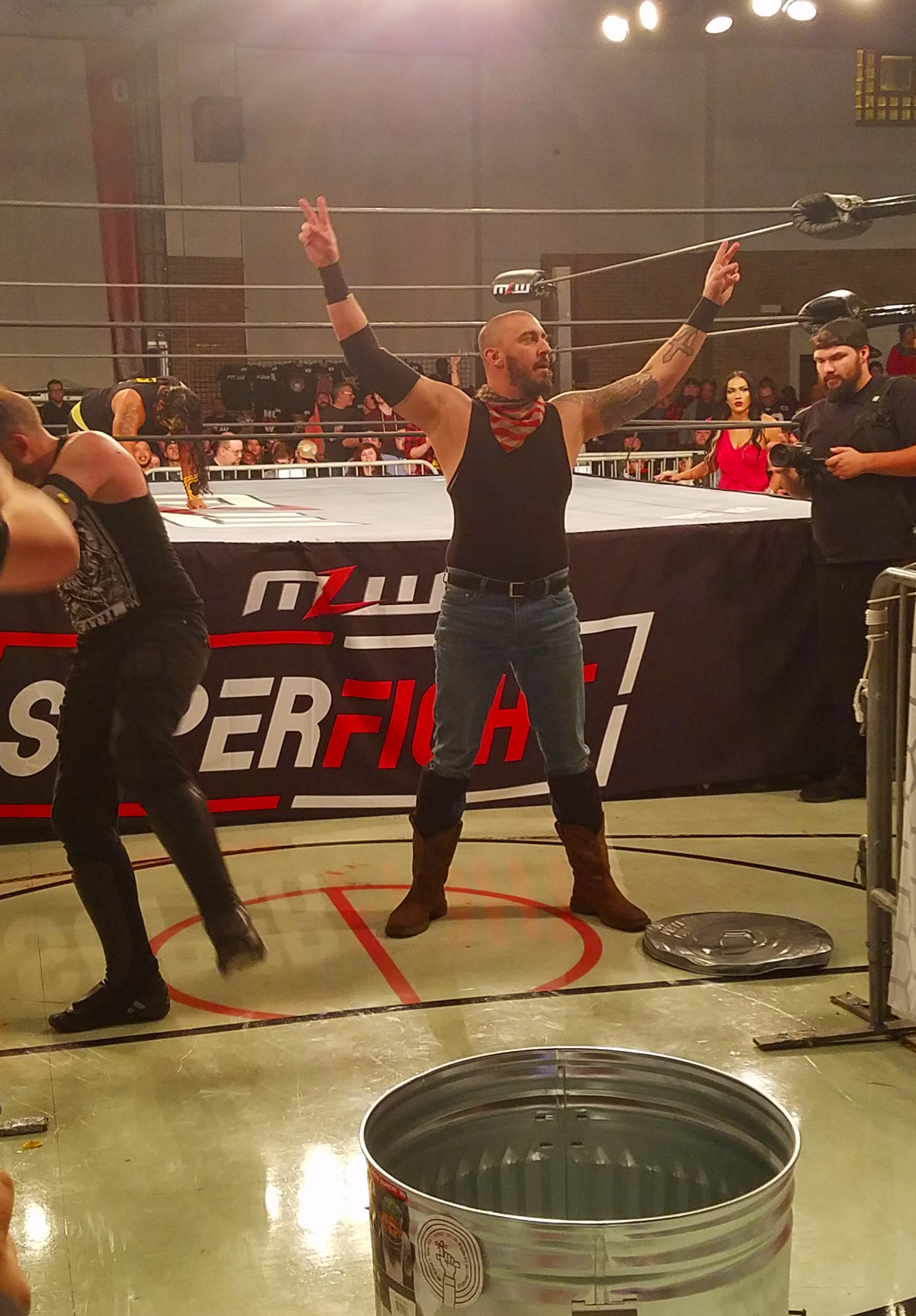 Mance Warner plays to the crowd during his "Stairway to Hell" match vs. Jimmy Havoc (left) at MLW Saturday Night SuperFight 2019 at Cicero Stadium in Cicero, Illinois on November 2, 2019.